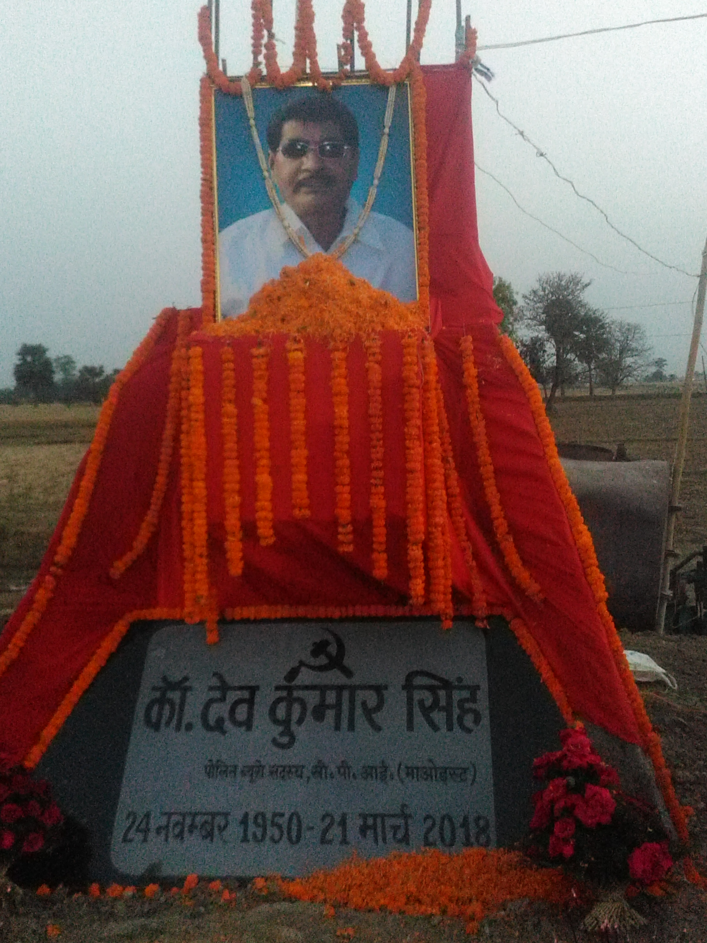 Deo Kumar Singh - Bust Construction